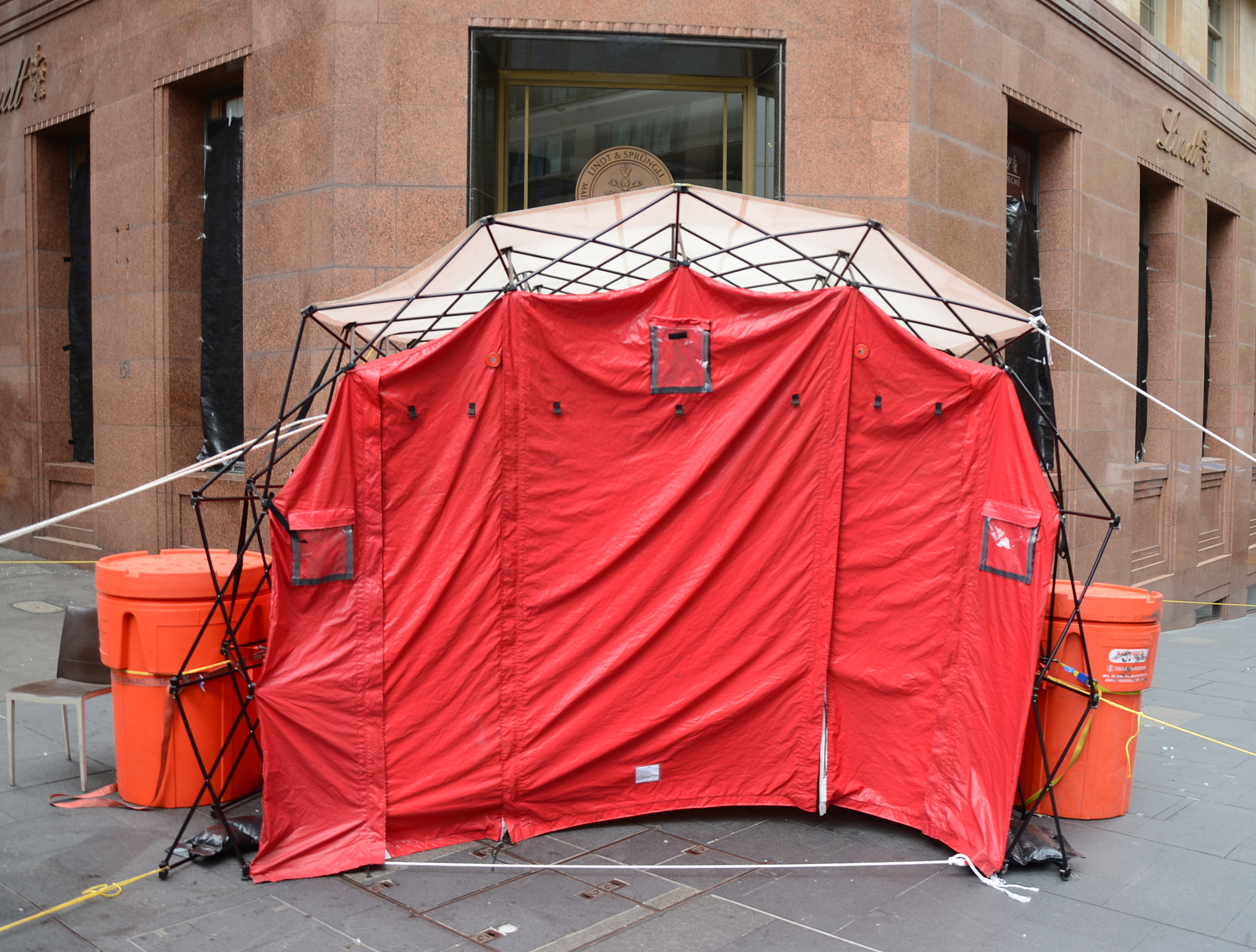 A Police forensics tent on the crime scene after Lindt Café siege, Martin Place, Sydney